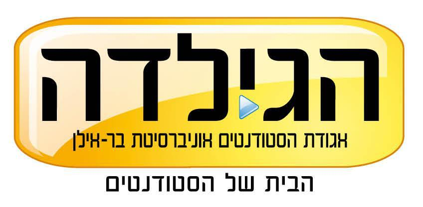 "hagilda" logo bar ilan